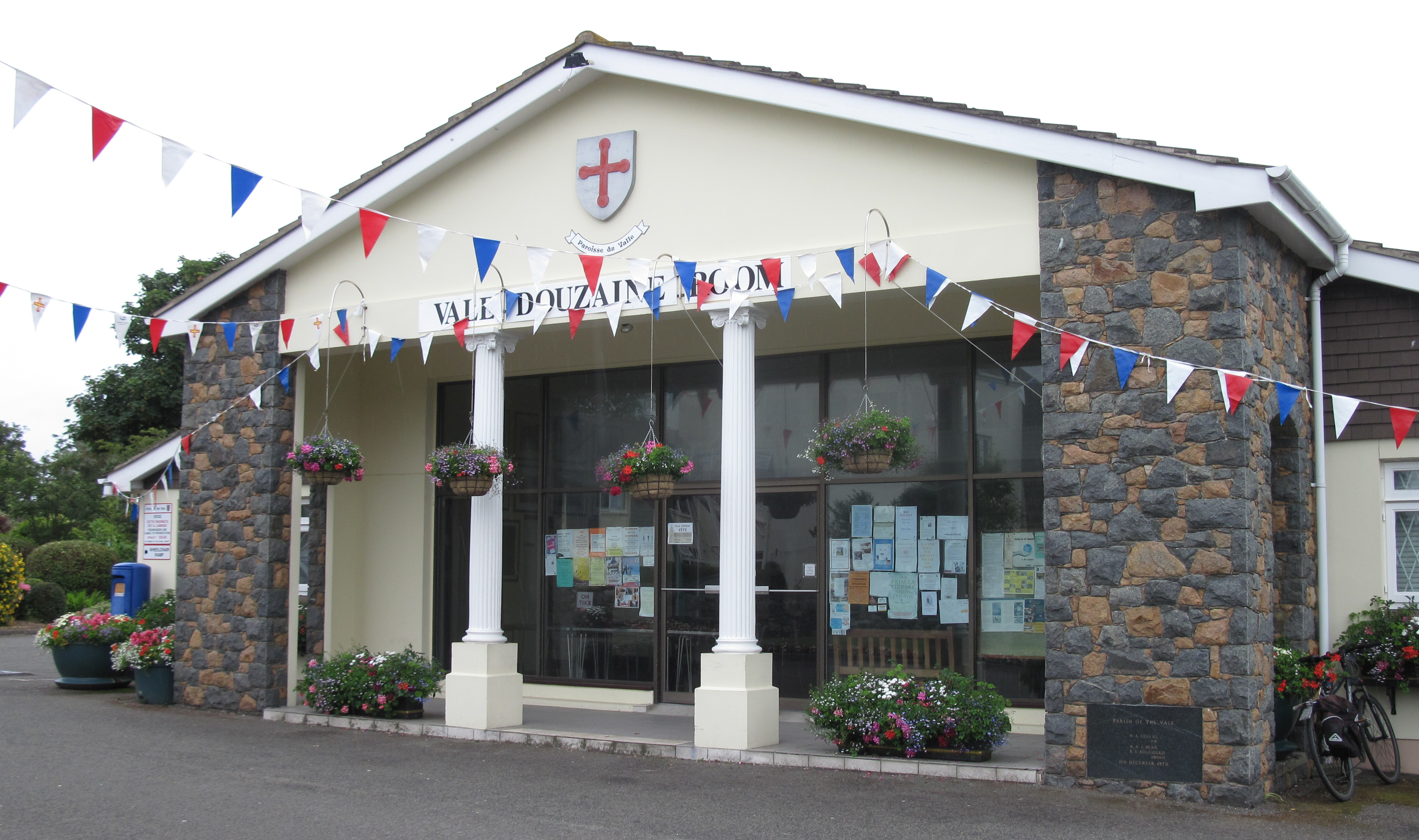 Guernsey, 2 July 2010: Vale, Douzaine room